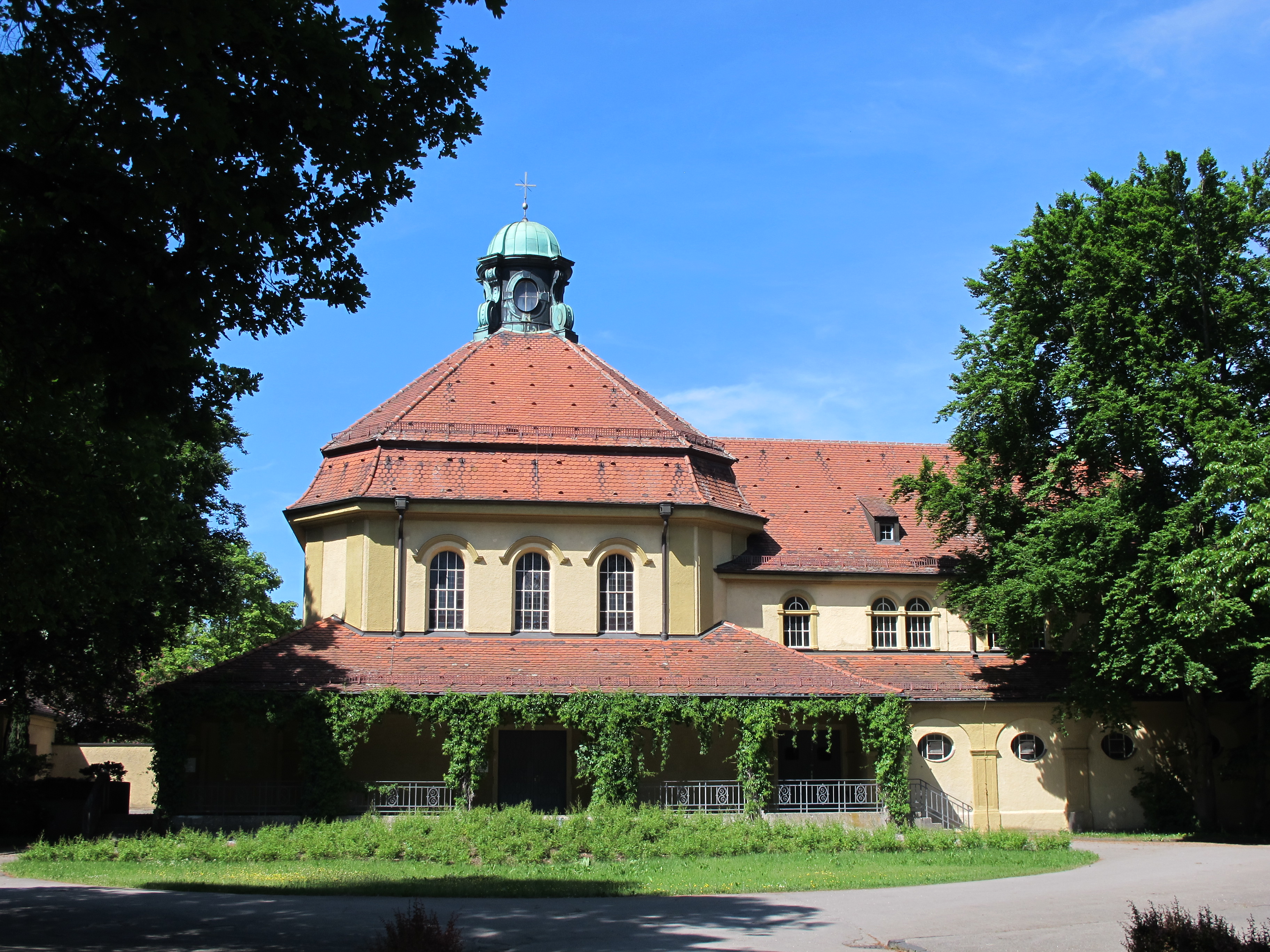 West cemetery Augsburg (funeral parlor)